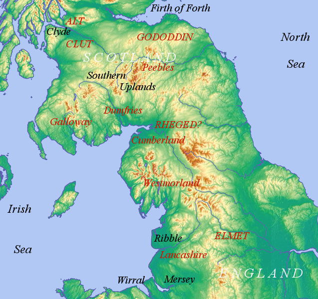 Map of the Cumbric language region, topography, modern regions and counties, Cumbric speaking kingdoms